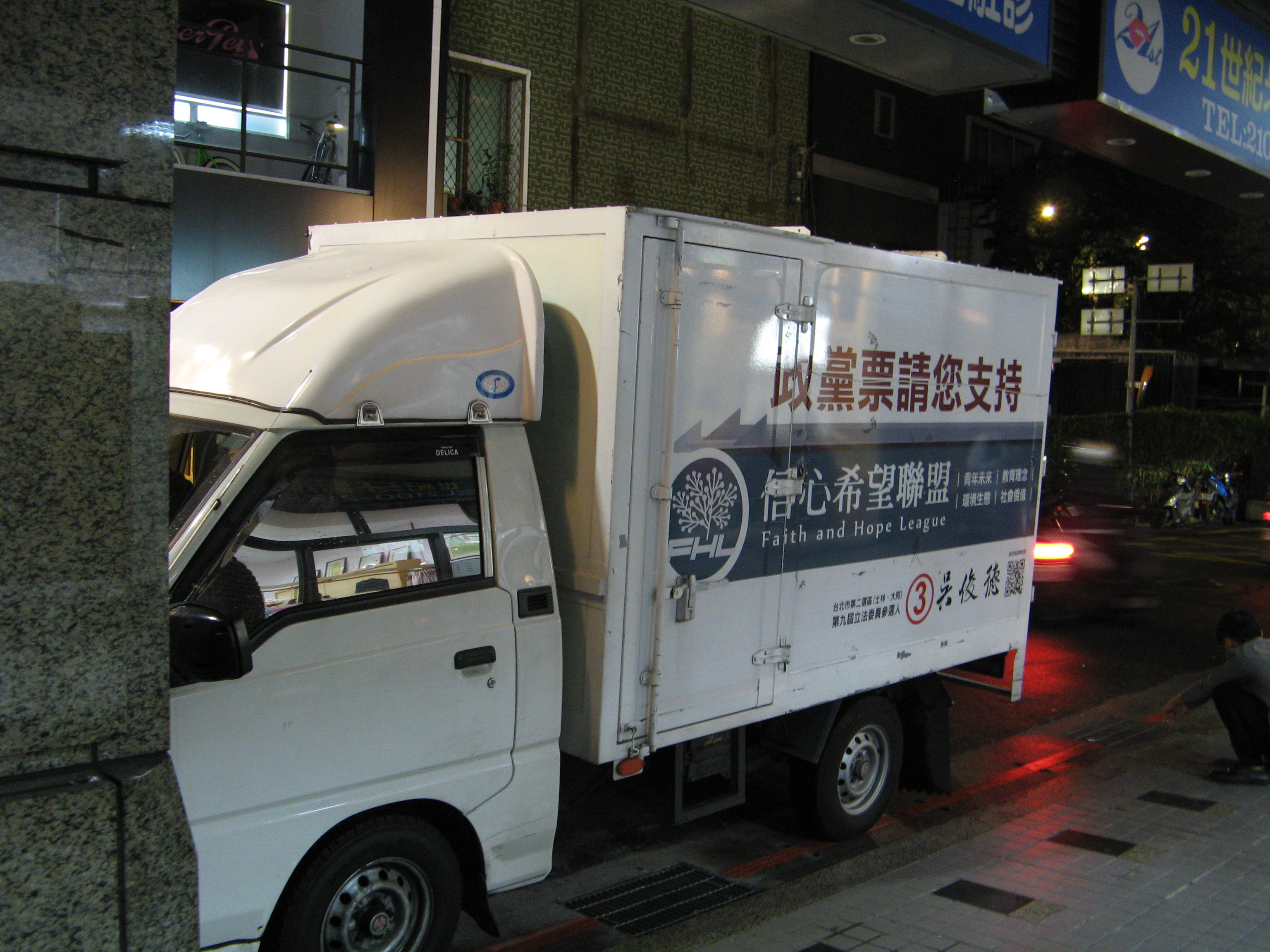 Mitsubishi Delica advertising truck of Faith and Hope League.